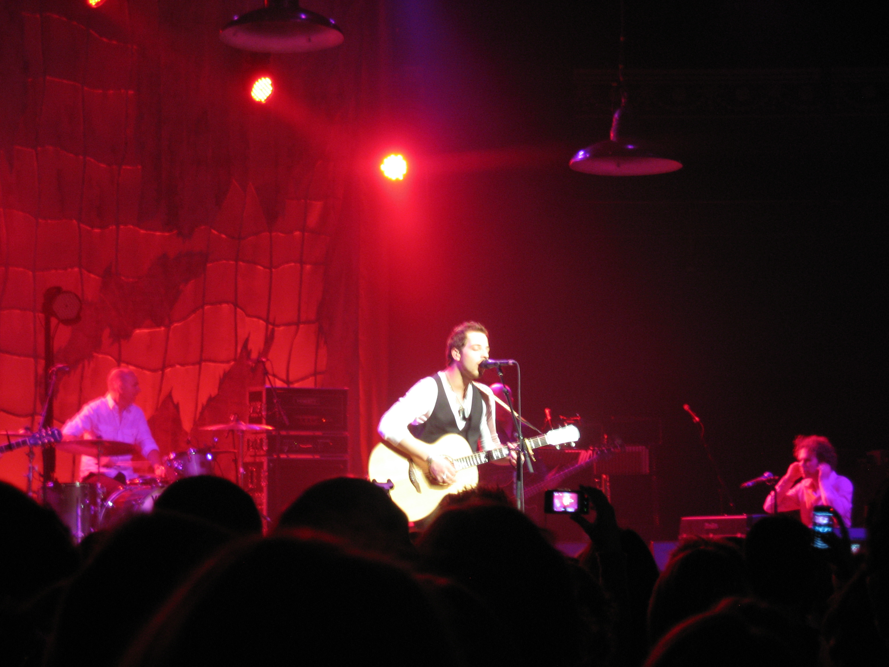 James Morrison at Royal Albert Hall